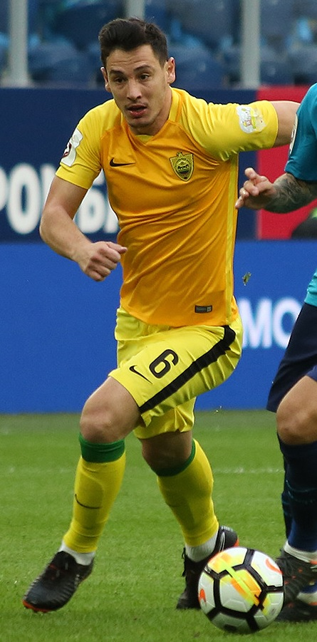 Paul Anton with FC Anzhi Makhachkala in a game against FC Zenit St. Petersburg.